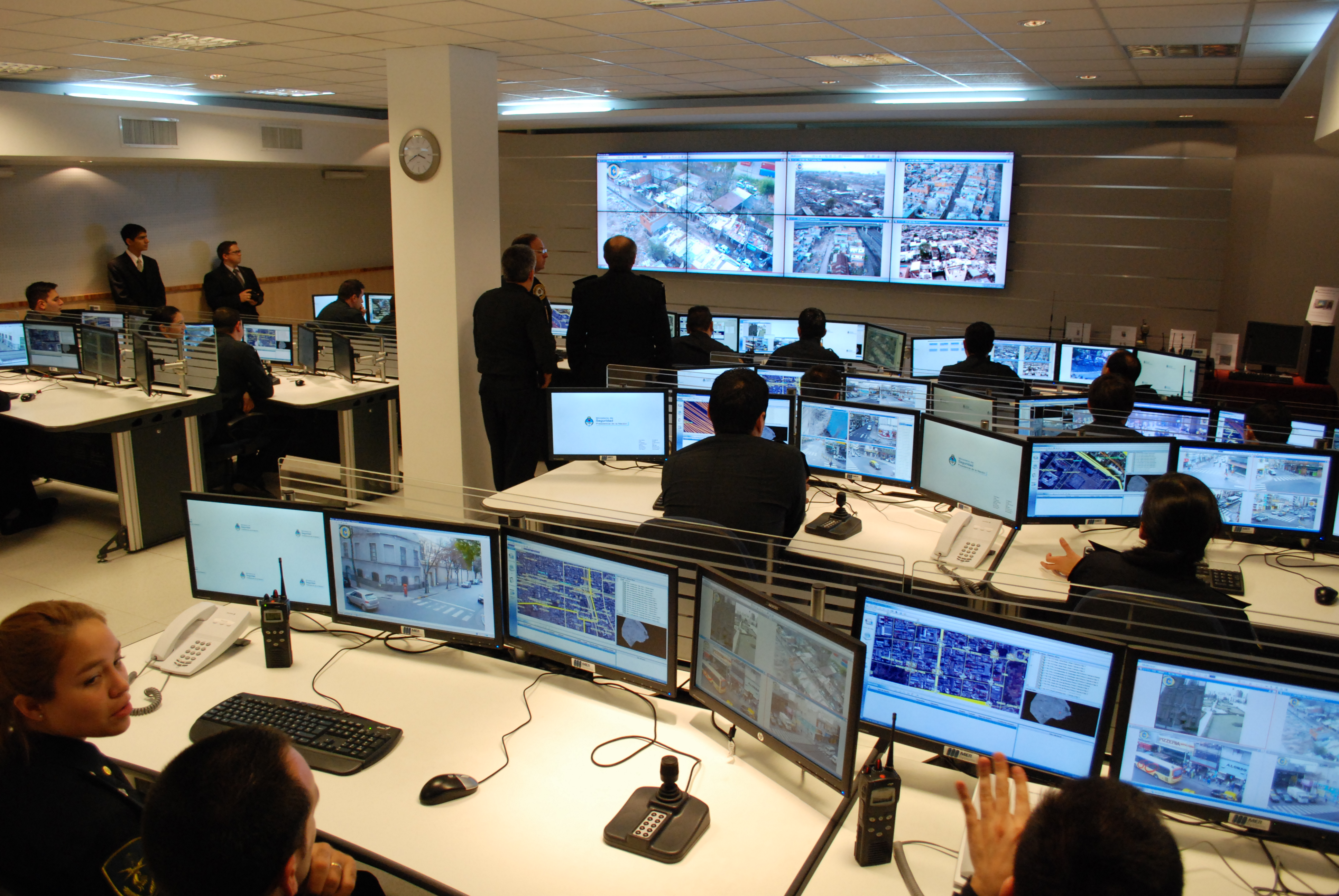 Surveillance CCTV studio Buenos Aires.